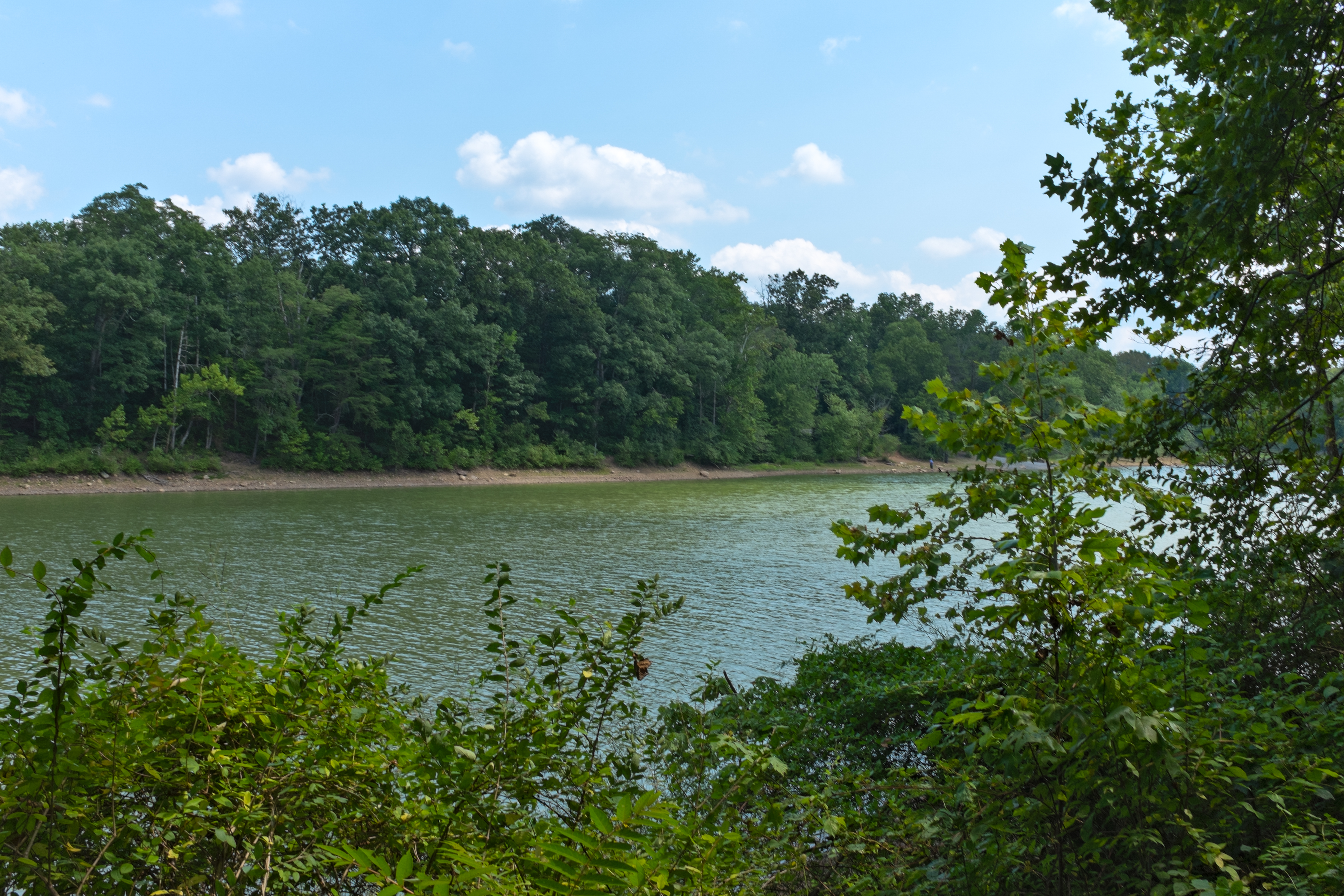 View of Big Pool, just below 113 mile mark, on the Chesapeake and Ohio Canal. This is looking from the canal towpath.